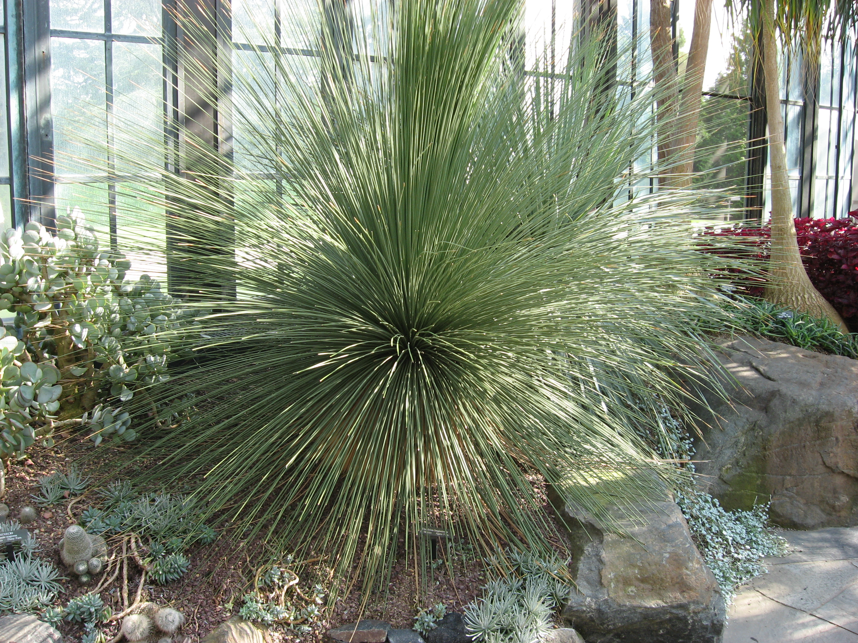 A picture of Dasylirion longissimum.